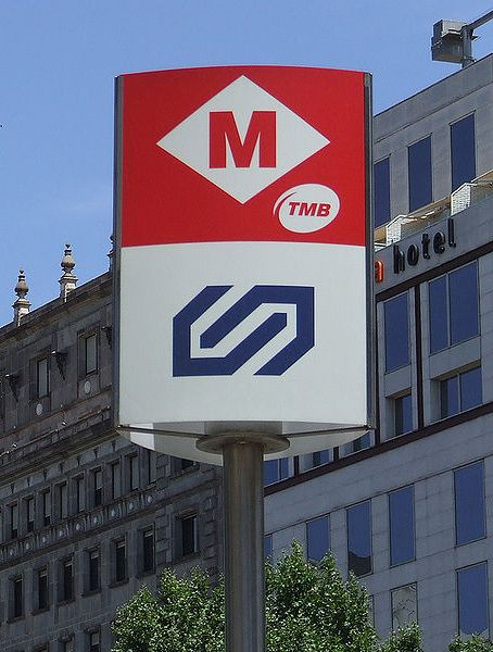 Metro sign on plaça catalunya barcelona